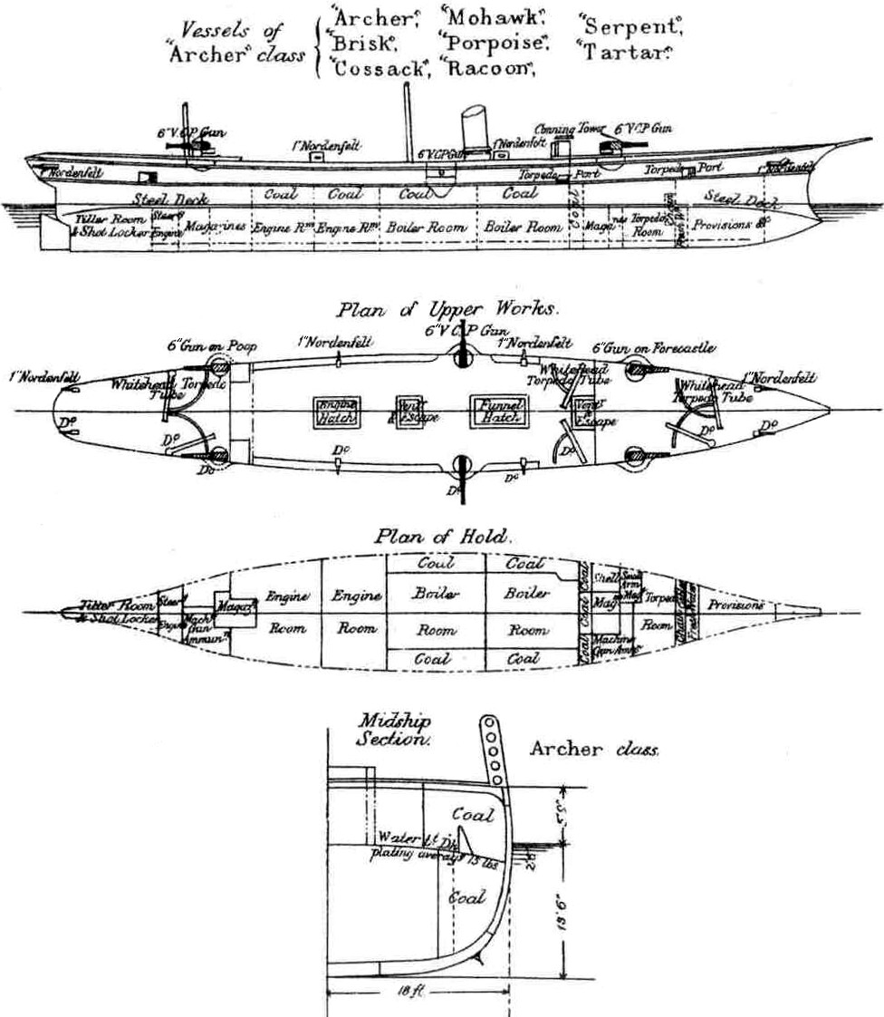 Deck plan, right elevation and hull cross-section diagrams of British Archer class torpedo cruiser.